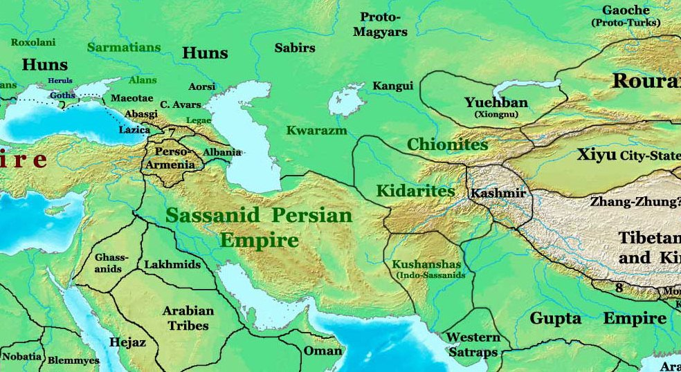 Central Asia 400 A.D.